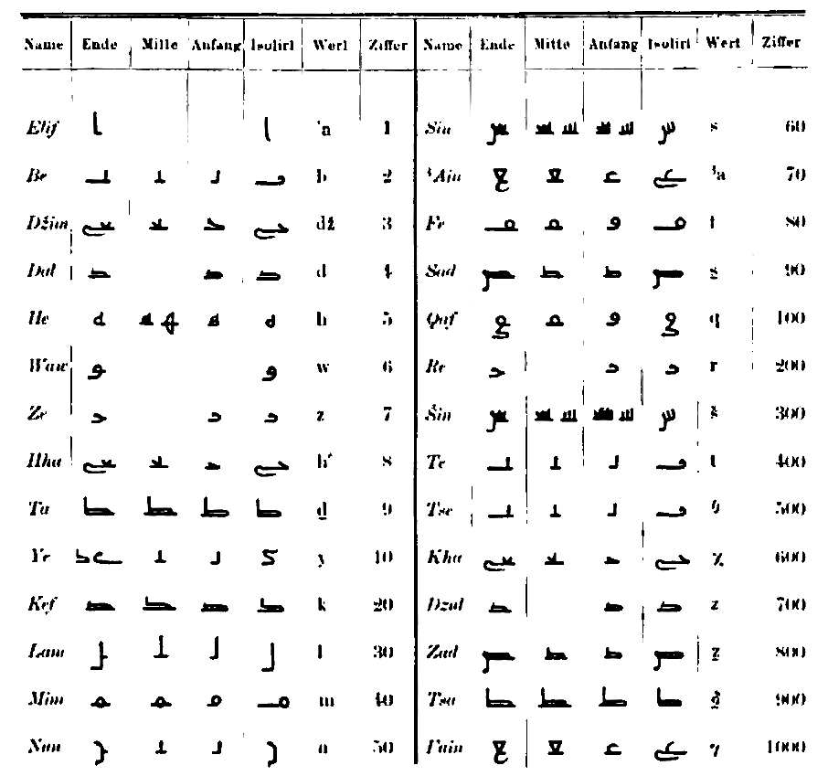 Kufic alphabet